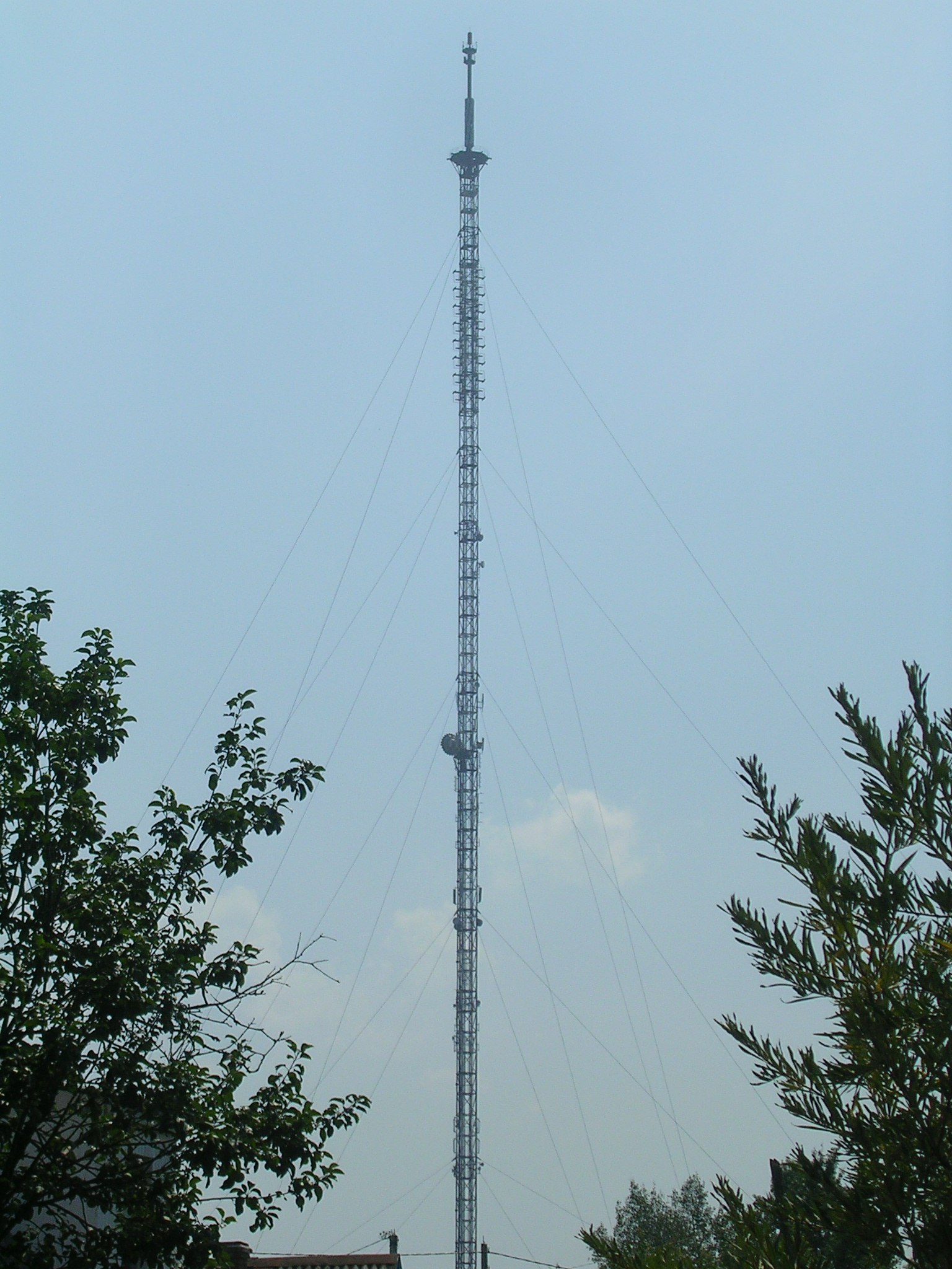 TV, radio, and other purpose transmitter mast in Botino (Shatura), Moscow region, Russia. 245,5 meters (2010).